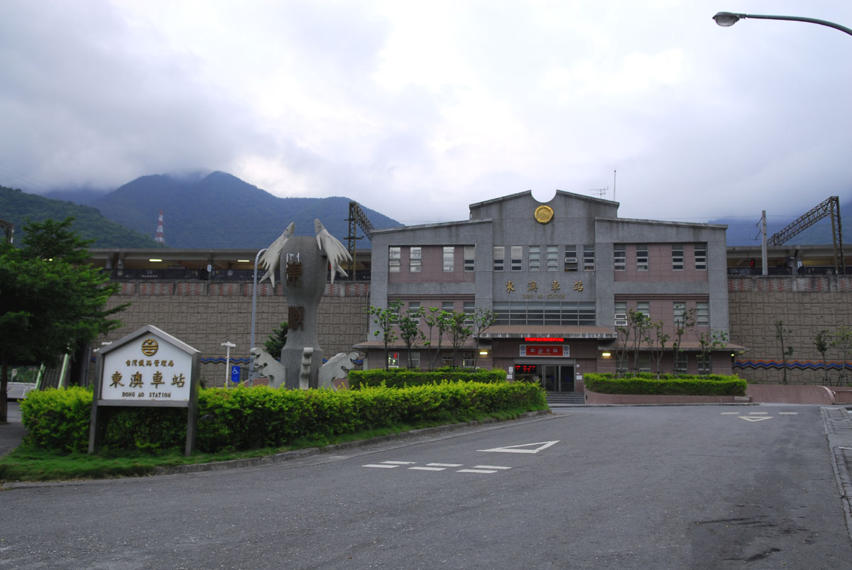 DongAo Station is a local train station of North-Link Line, part of Taiwan's eastern rail line. It's located within the boundary of Suao Town.